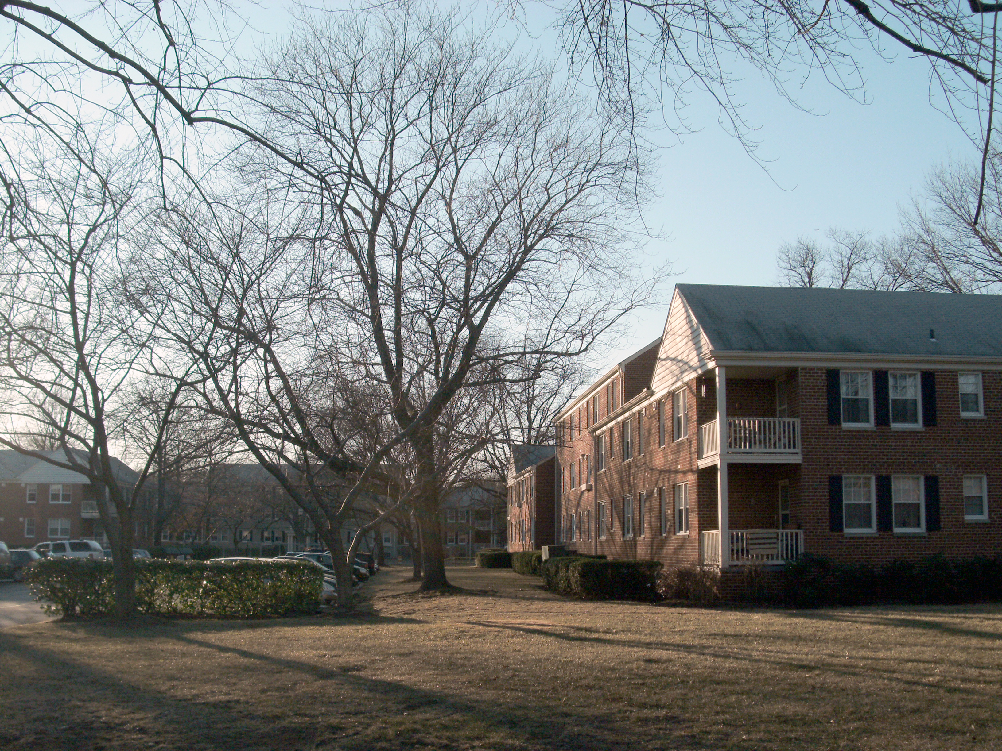 Apartment building in Belle Haven, Virginia